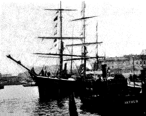 Vessel Antarctic